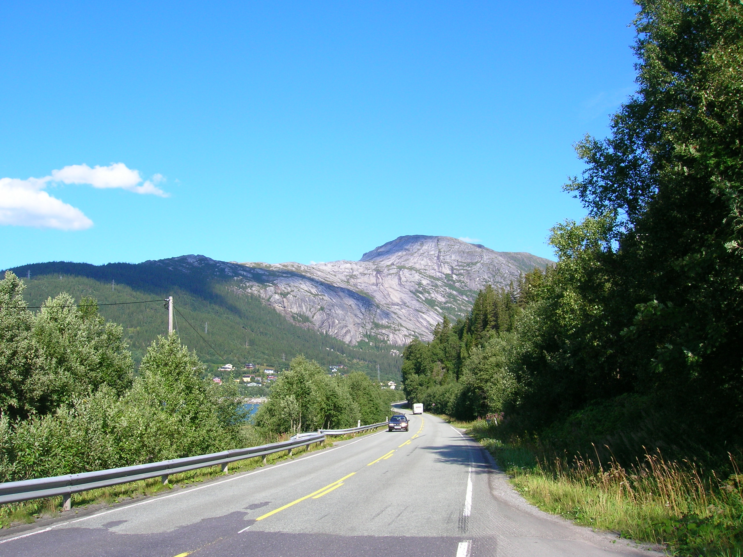 European route 6 south of Dalsgrenda in Rana. The road to Dalsgrenda is connected with European route 6 on the right side, beneath the foot of mount Hauknestind (highest point 799 meters above sealevel), seen on the image. Rana municipality, county of Nordland, Norway. Photo 8 August 2007 with a Nikon Coolpix 5600 5,1 Megapixel camera.